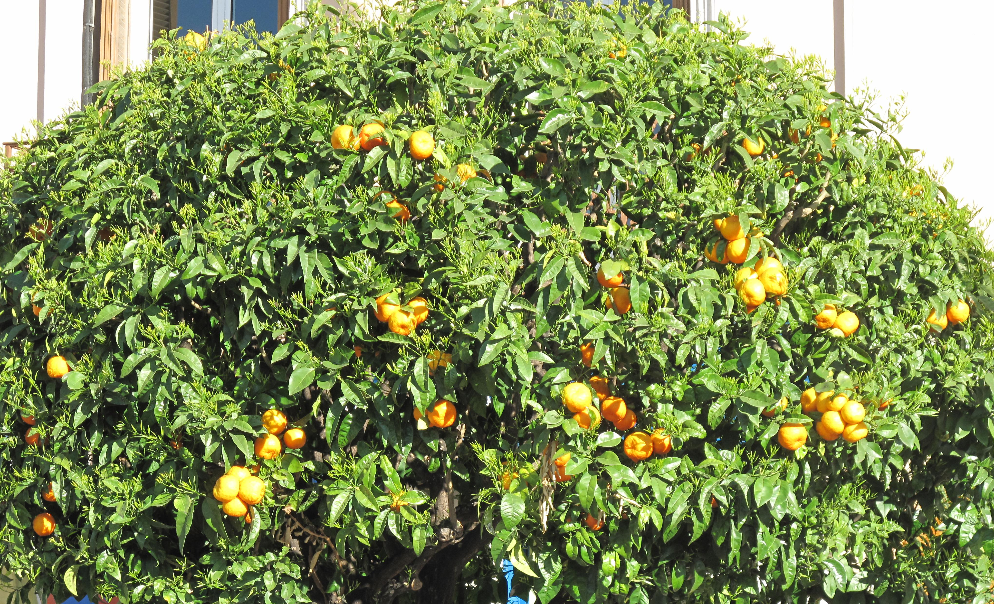 Citrus sinensis: Orange tree in the streets of Carnolès in Southern France. (cropped)